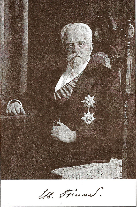 Ivan Avgustovich Time